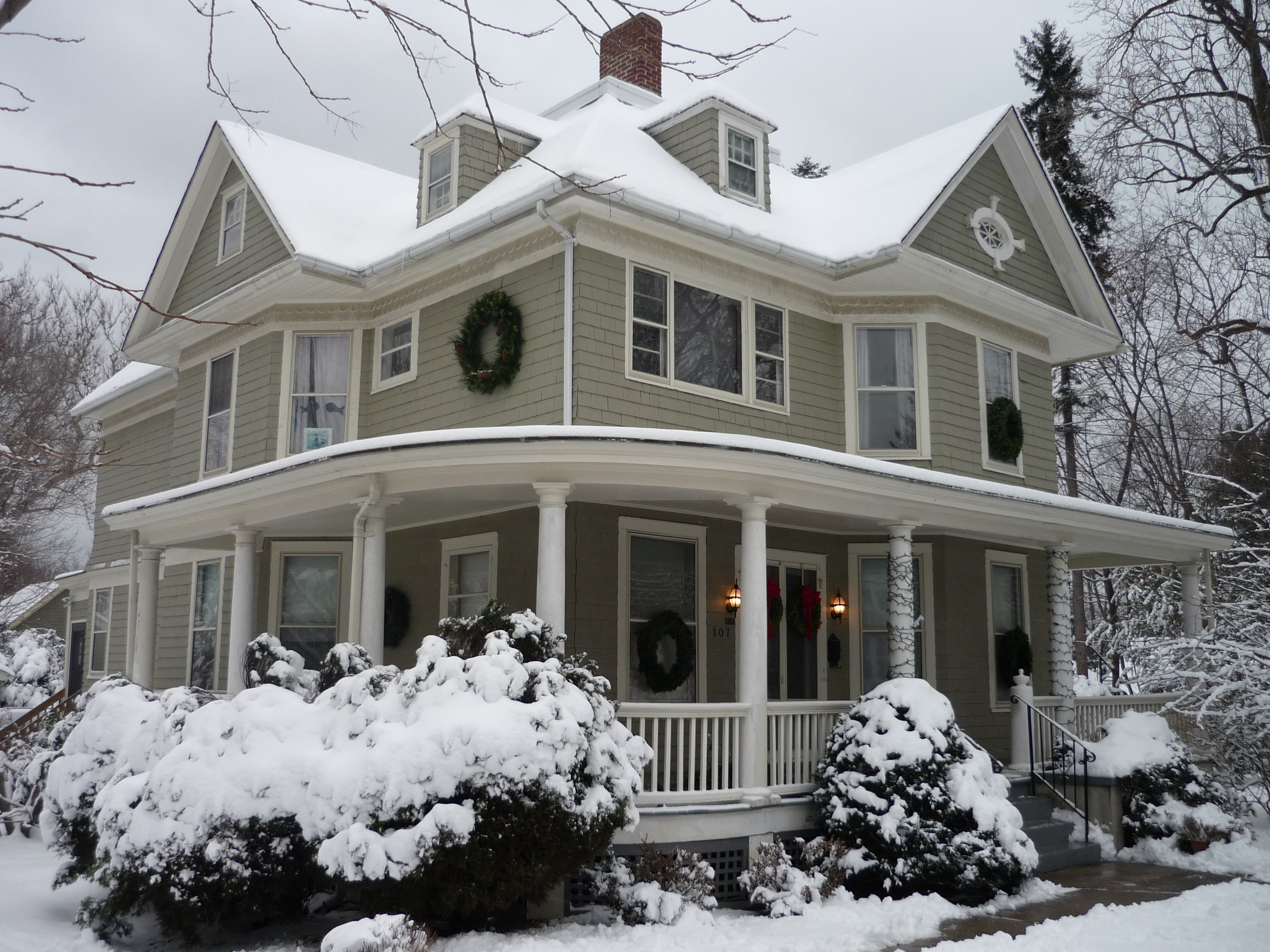 Stoddart House, Oyster Bay, New York